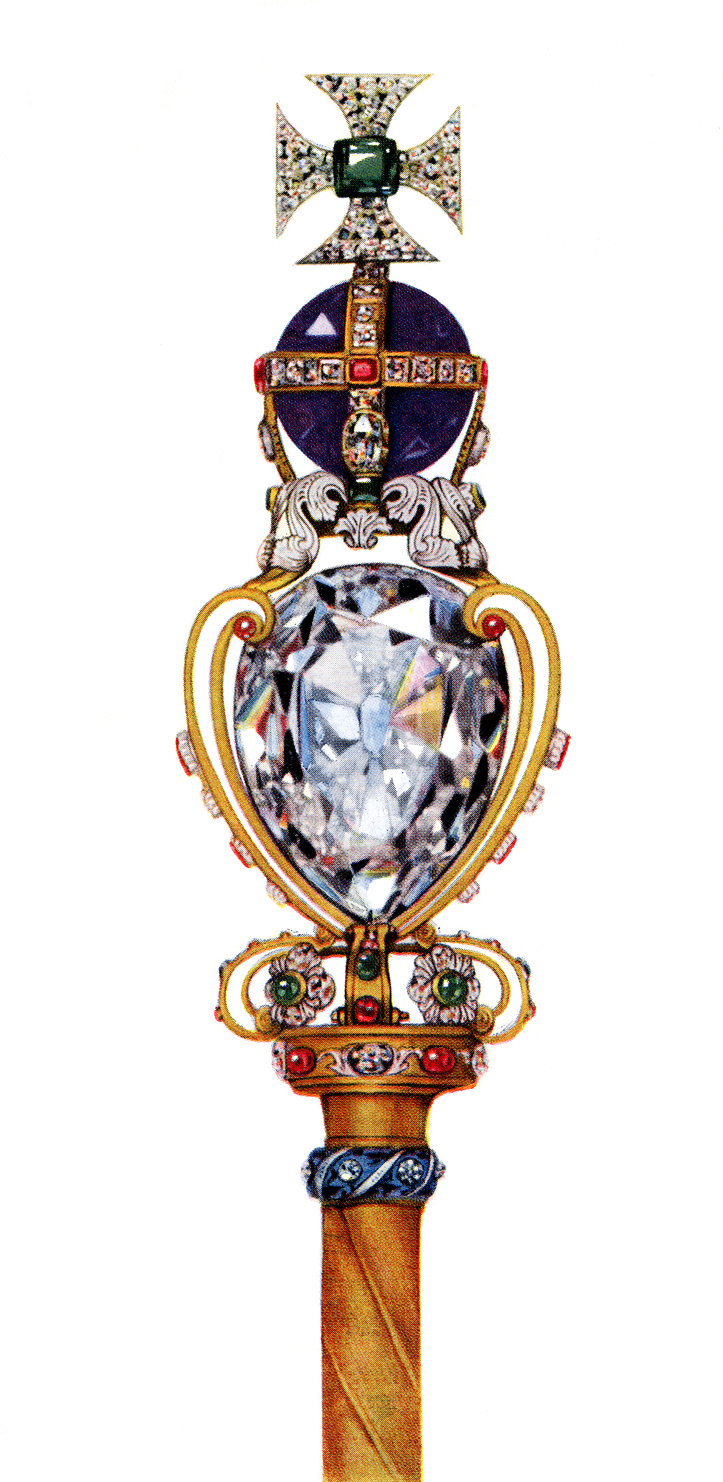 Head of the Sovereign's Sceptre with Cross, showing the Cullinan I diamond